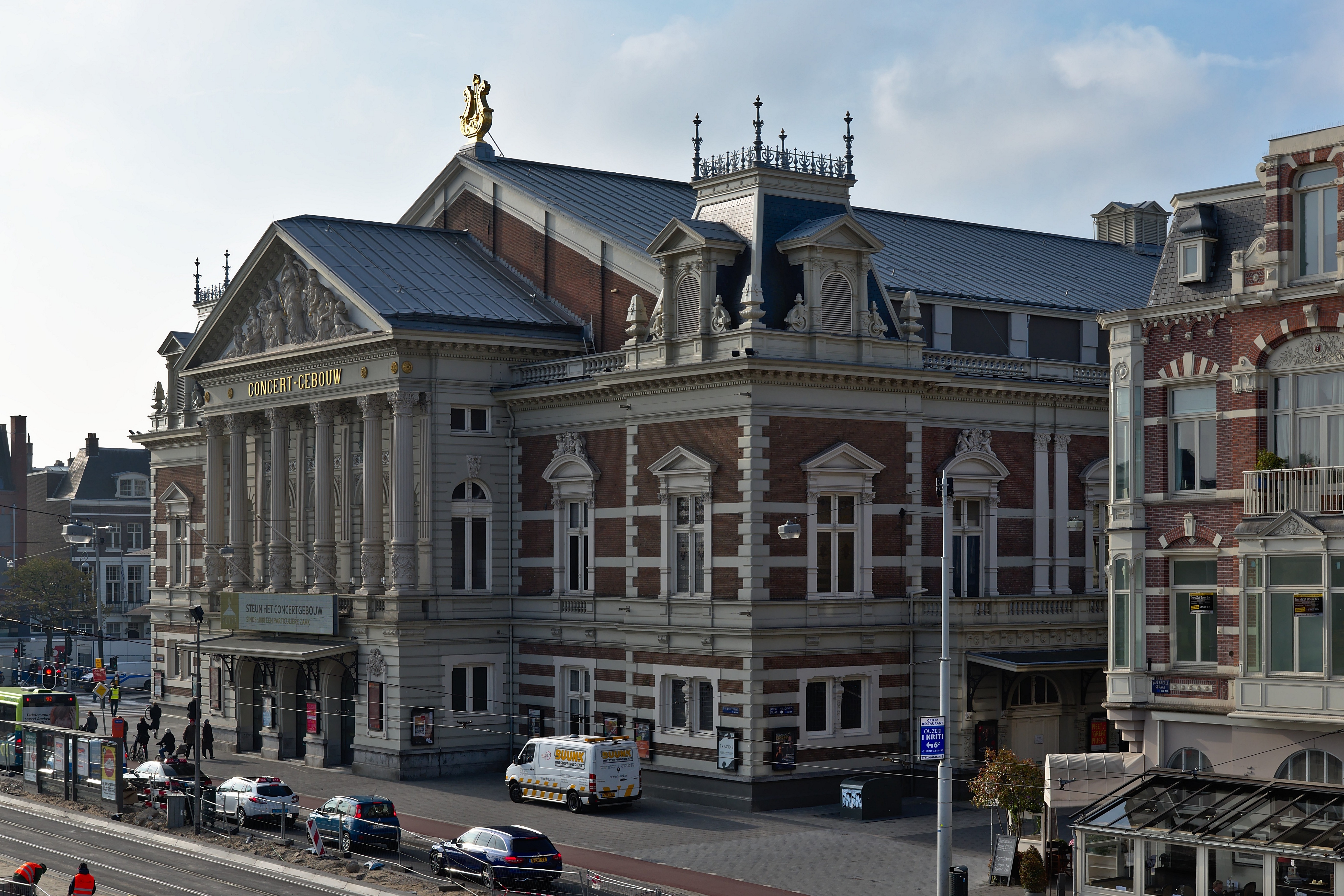 The Concertgewbouw in Amsterdam.